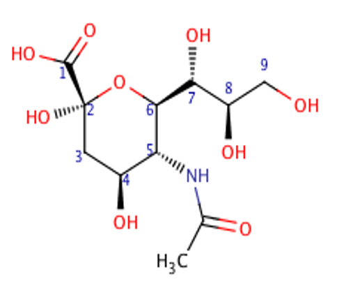 Neu5Ac